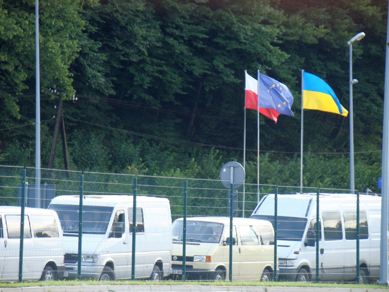 Poland–Ukraine border crossing Krościenko-Smilnytsya